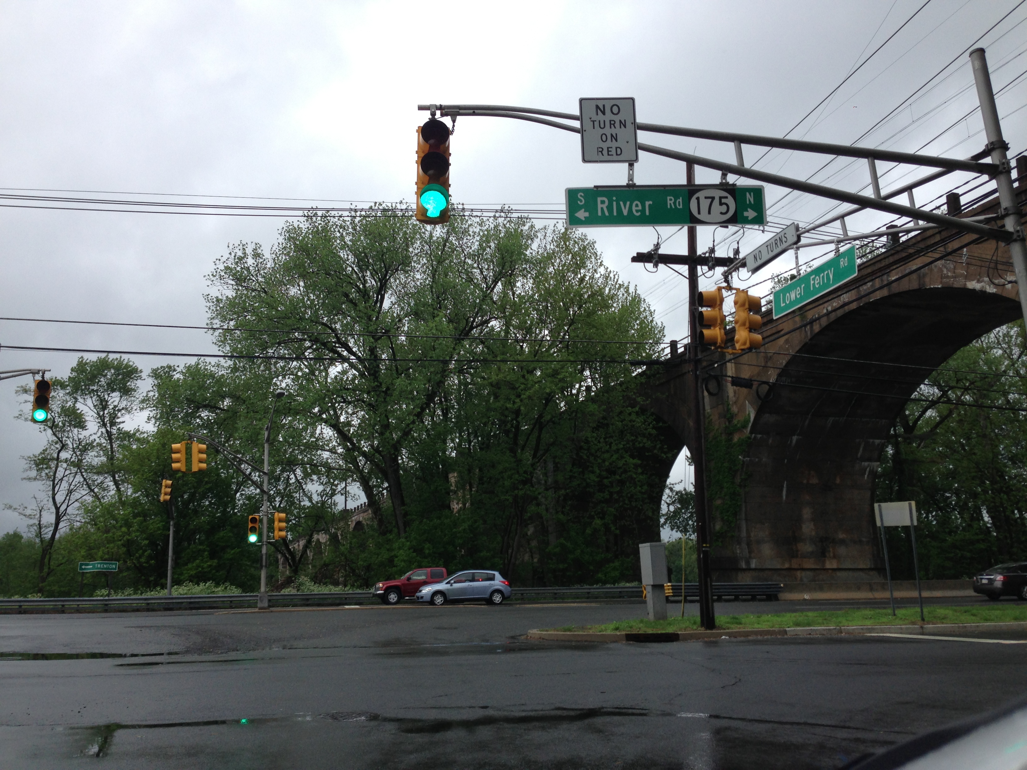 Intersection of River Road (New Jersey Route 175), Daniel Bray Highway (New Jersey Route 29) and Lower Ferry Road (Mercer County Route 643) in Ewing, New Jersey